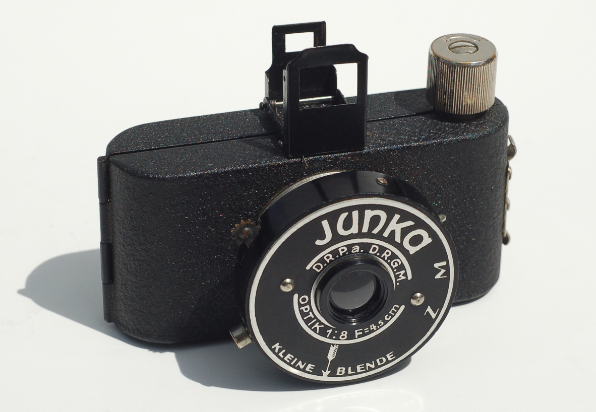 With a name like Junka, it has to be good! This small, metal, and fairly heavy camera was named for the manufacturer, Junka-Werke of Germany. From c1938, the Junka was made with a rigid optical finder. This example is earlier (c1937), with a folding finder. The same camera was renamed "Juka" in 1950 and distibuted by Adox, who also sold the special rollfilm for it.